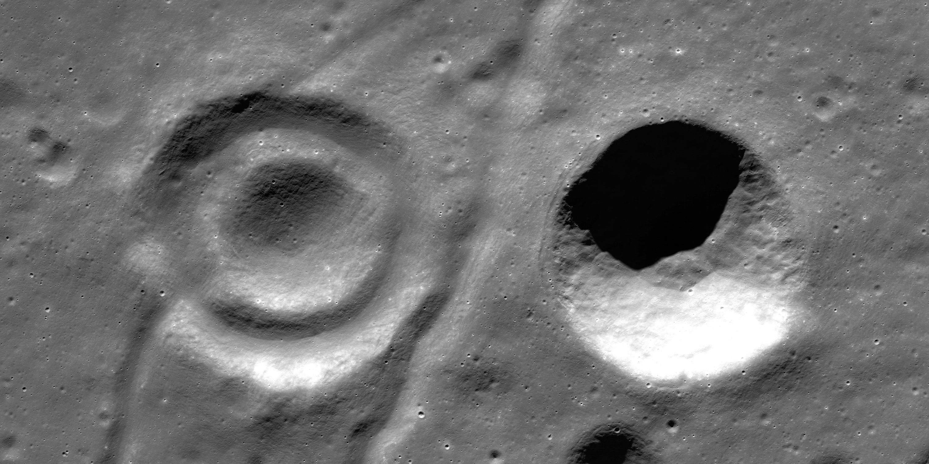 Two unnamed craters on the Moon, on western shore of Oceanus Procellarum, in crater Lavoisier. The left one is a concentric crater (number 48 in the list of such craters by Wood, 1978), right one is usual crater. Photo by Lunar Reconnaissance Orbiter, made with Narrow Angle Camera on 24 Jume 2014 from altitude 139 km. Sun elevation is 19.5°. Size of the photo is 17×8.5 km, north is approximately at right.